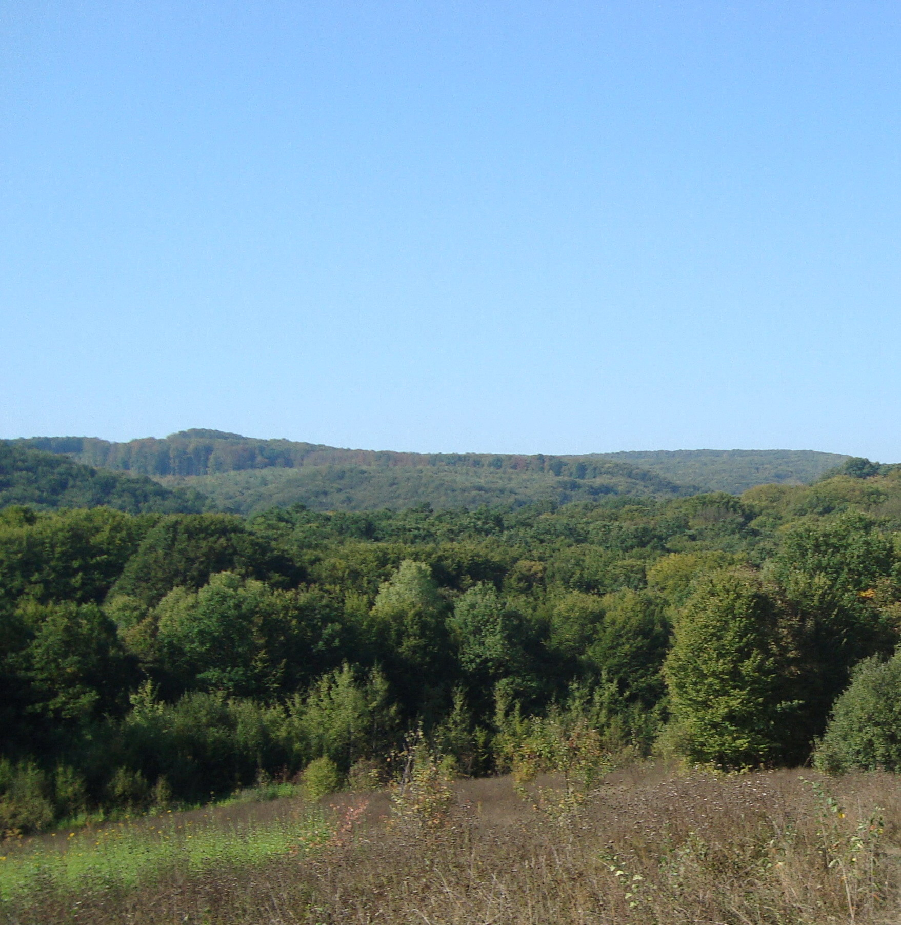 Cosmin Forest